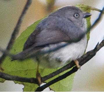 Pygmy Tit Psaltria exilis Indonesian: Cerecet, Cerecet Jawa, Glatik kecil Location : Cibodas Botanical Gardwn , Java, Indonesia 1 st. February 2010 The tail is actually long than it looks on this picture. Just not able to get the whole lot, at least 12 to stay in one place long enough to focus properly Distribution:(actually endemic to Java, confined to montane forests.) 2010 690V1898 pt